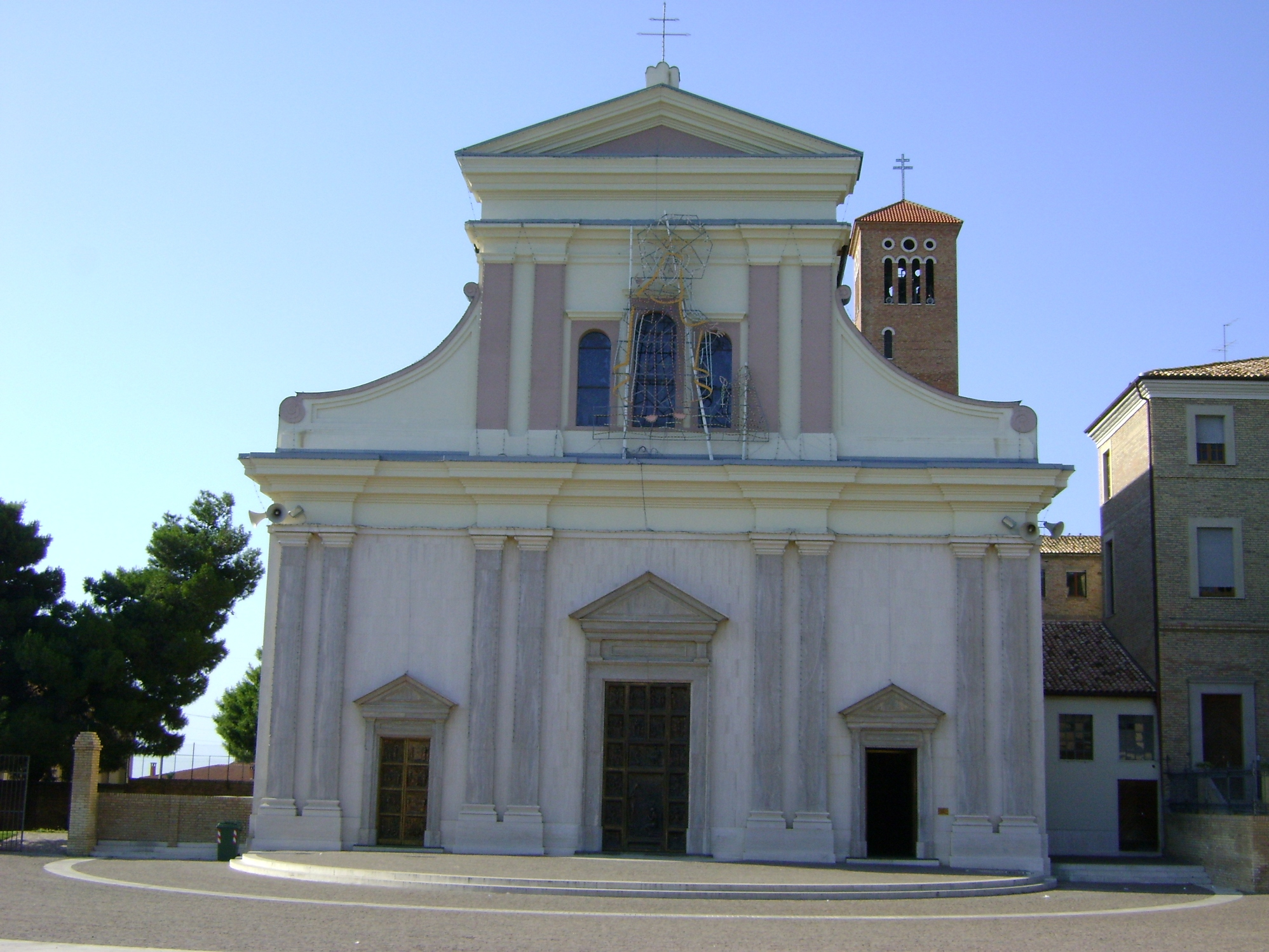 The facade of the sanctuary of Our Lady of Miracles, Casalbordino, province of Chieti, Abruzzo